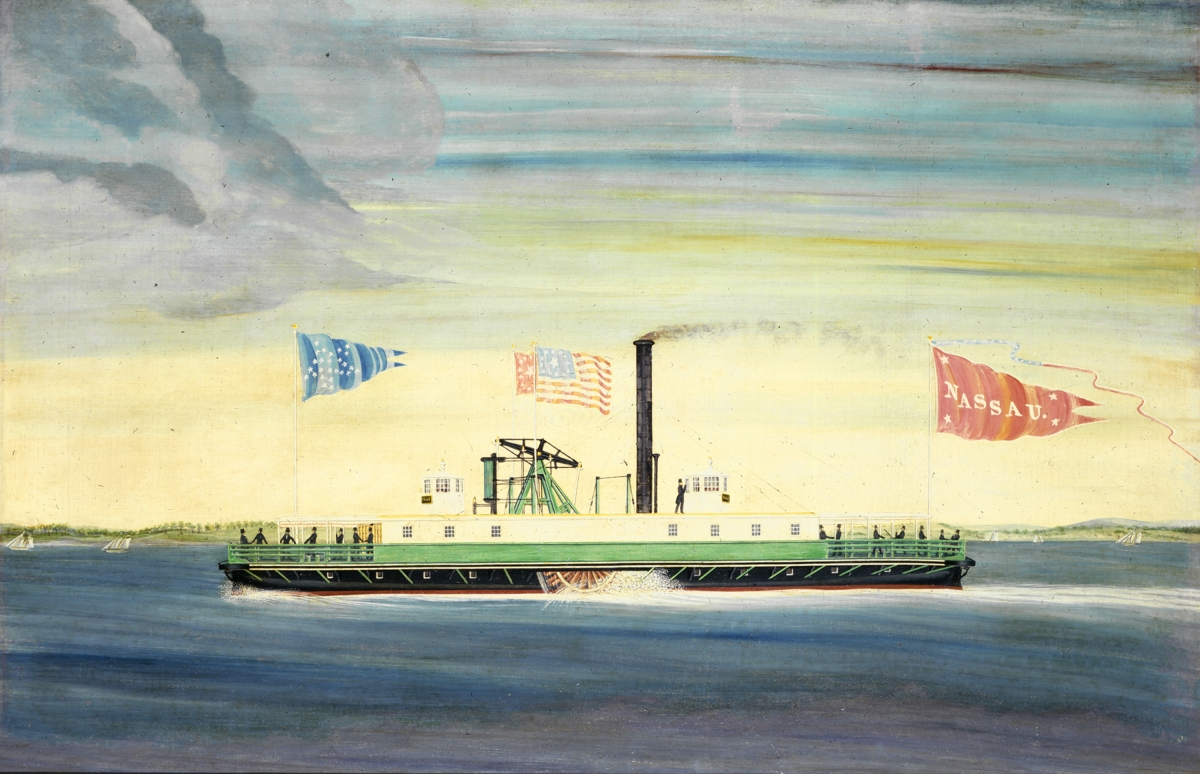 Crop from a painting of Robert Fulton's Nassau, the first steam ferry boat to run regularly scheduled service between Manhattan and Brooklyn.